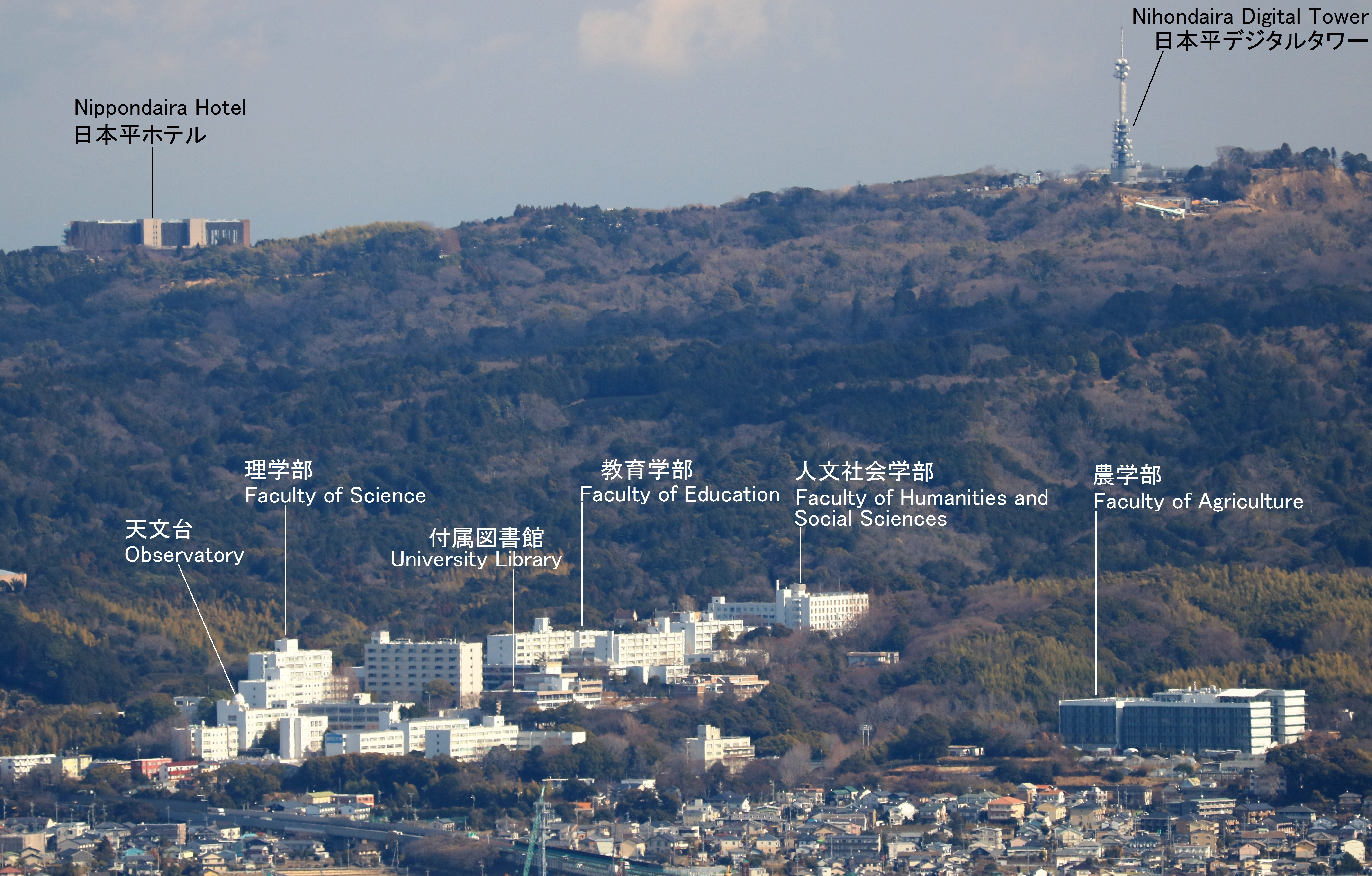 Shizuoka University and Nihondaira seen from Choseniwa in Shizuoka City, Shizuoka Prefecture, Japan.